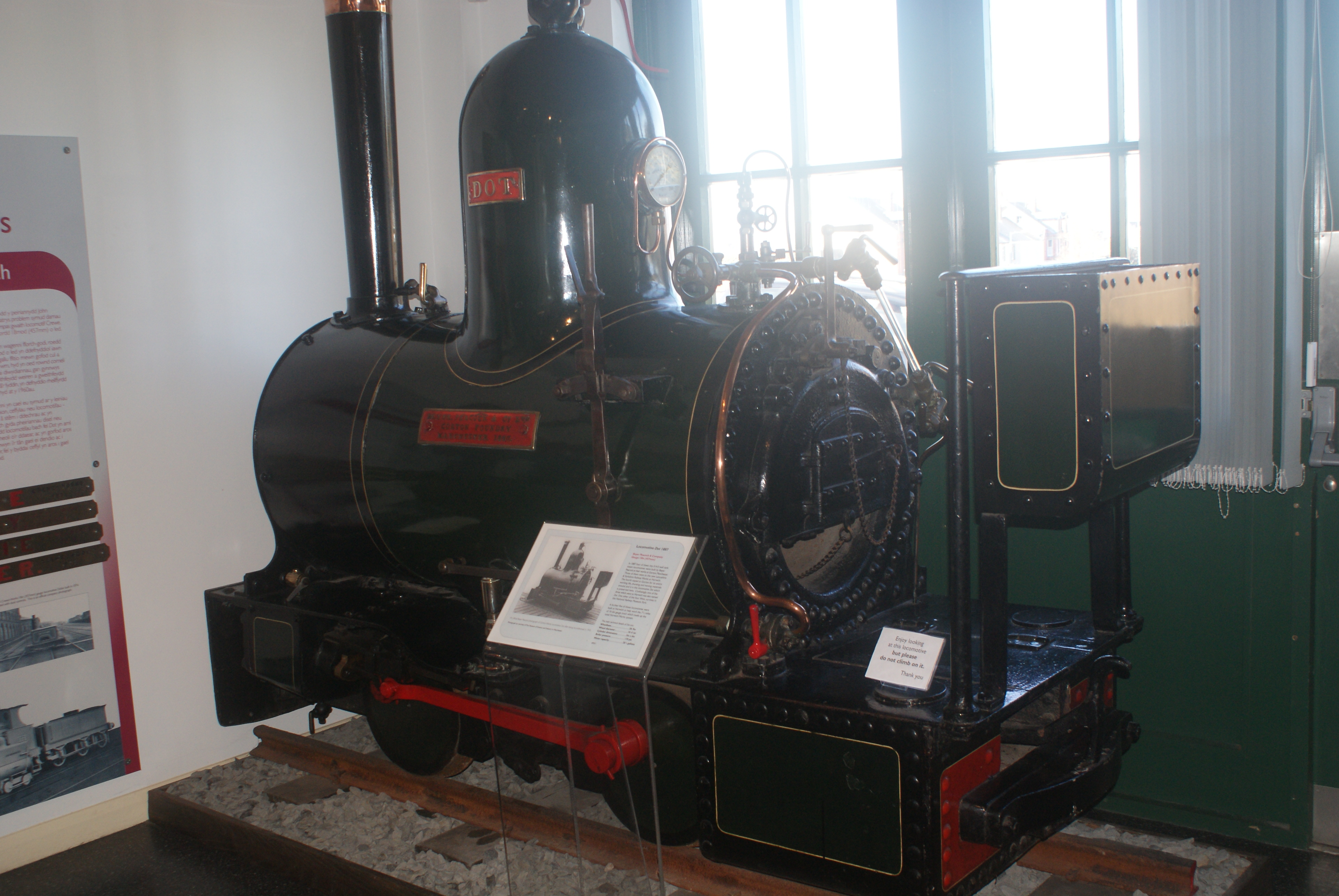 Dot, a Beyer Peacock locomotive from the Gorton Works Railway, in the Narrow Gauge Railway Museum at the Talyllyn Railway.